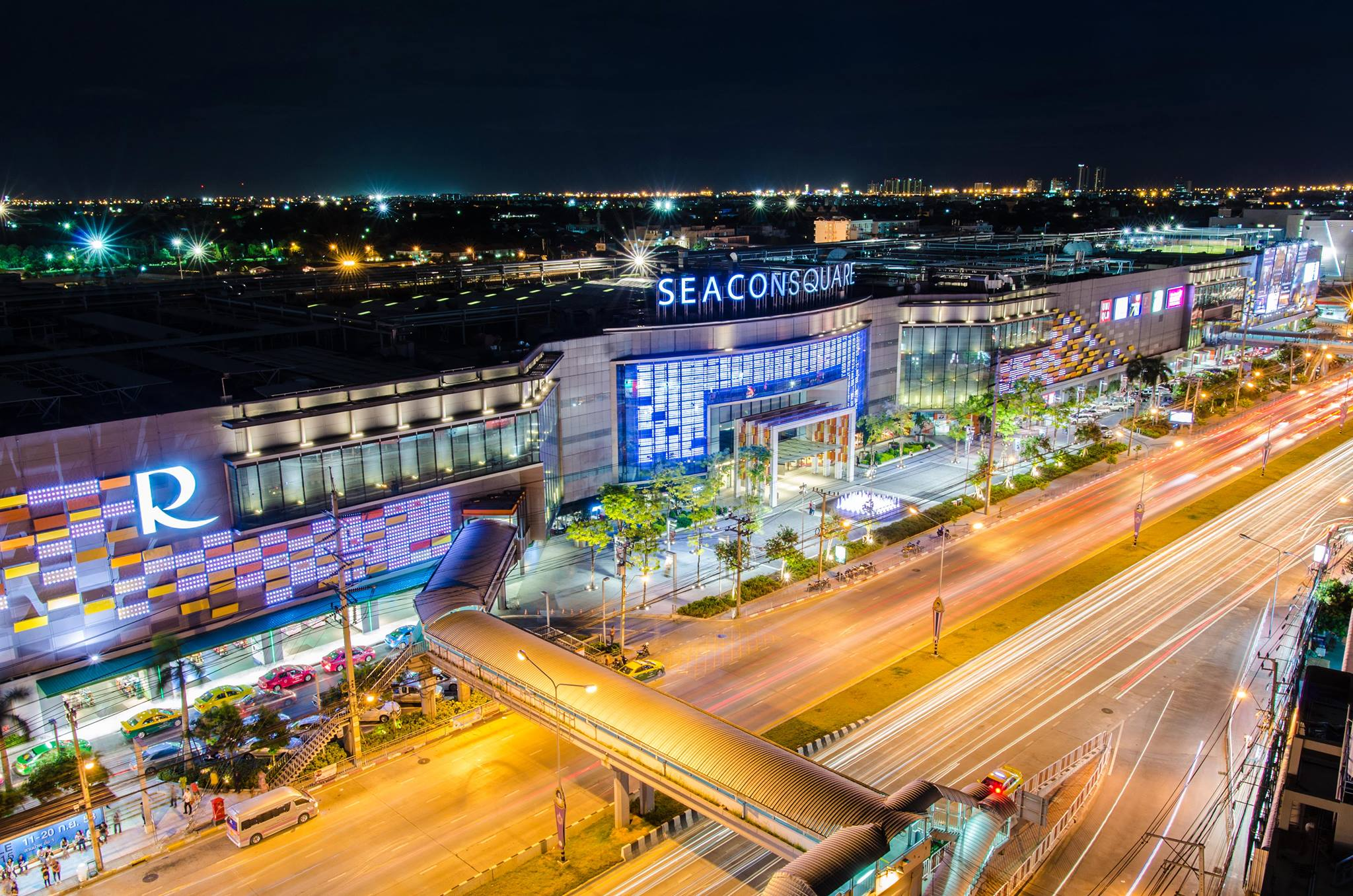 Big Shopping Mall in Bangkok, Thailand.